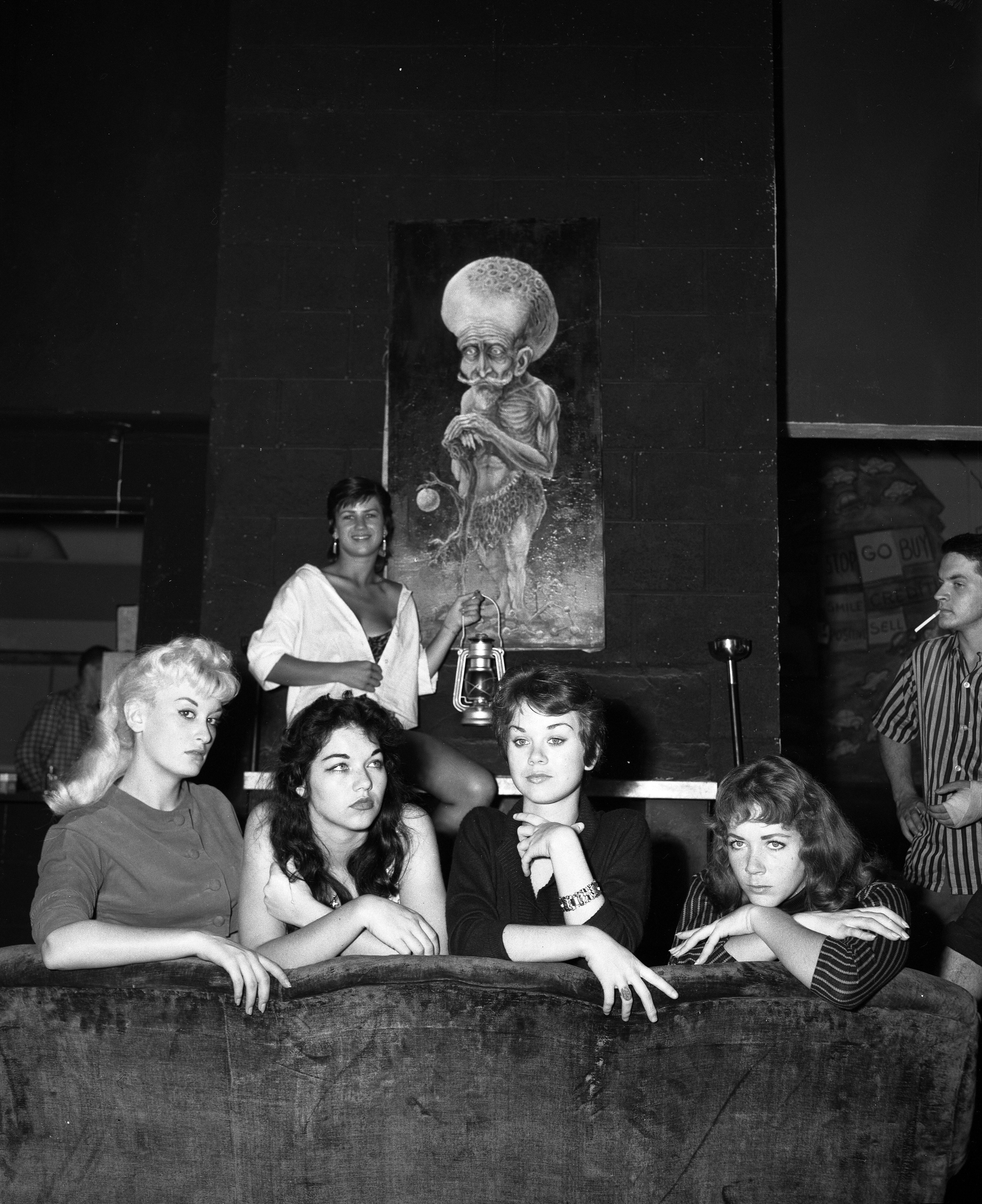 Title: Posing before a sample of beatnik art are Miss Beatnik of 1959 contestants in Venice, Calif. Published caption:BEATNIK BEAUTIES-Posing before a sample of beatnik art are contestants for the title of Miss Beatnik of 1959, which will be conferred Sept. 12 under sponsorship of the Venice Arts Committee. From left are Michi Monteef, Sammy McCord, Patti McCrory, Shaunna Lea and, in rear, Jan Vandaveer.